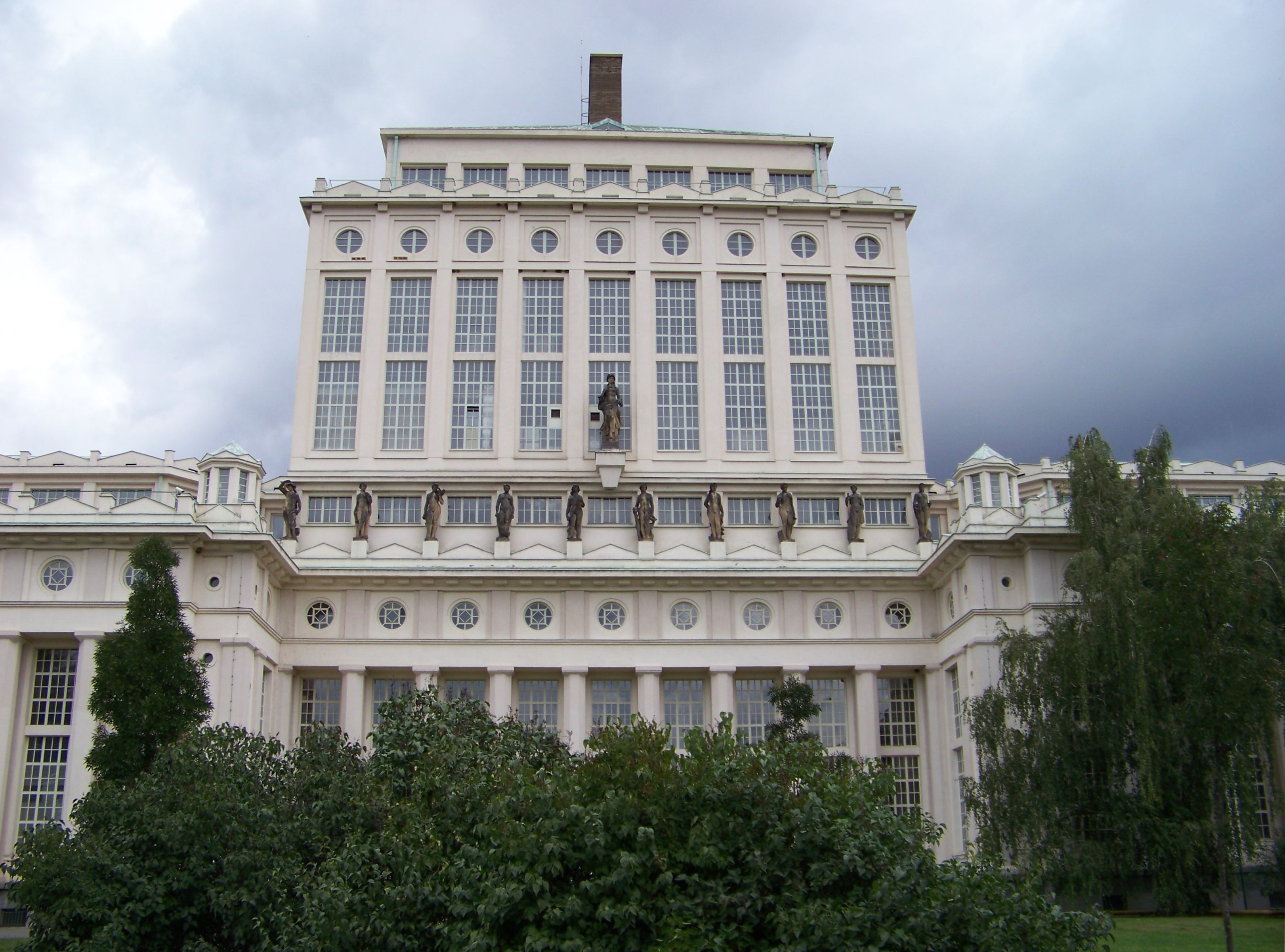 Prague-Podolí, Czech Republic. Water works, statues on the south facade.